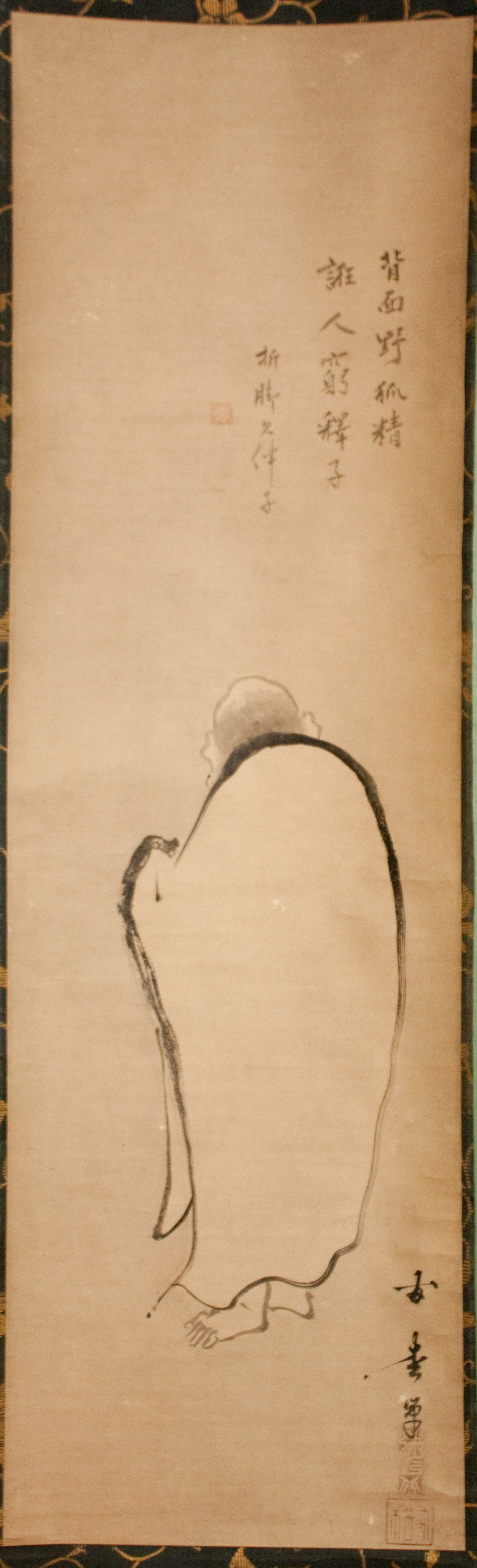 Sumi-e painting on a scroll from Momoyama Period (16th century), Japan, by Kaiho Yusho.